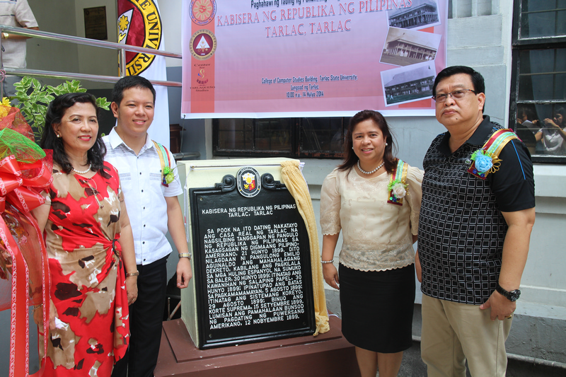 NHCP historical marker for the Capital of the Republic of the Philippines in Tarlac, Tarlac